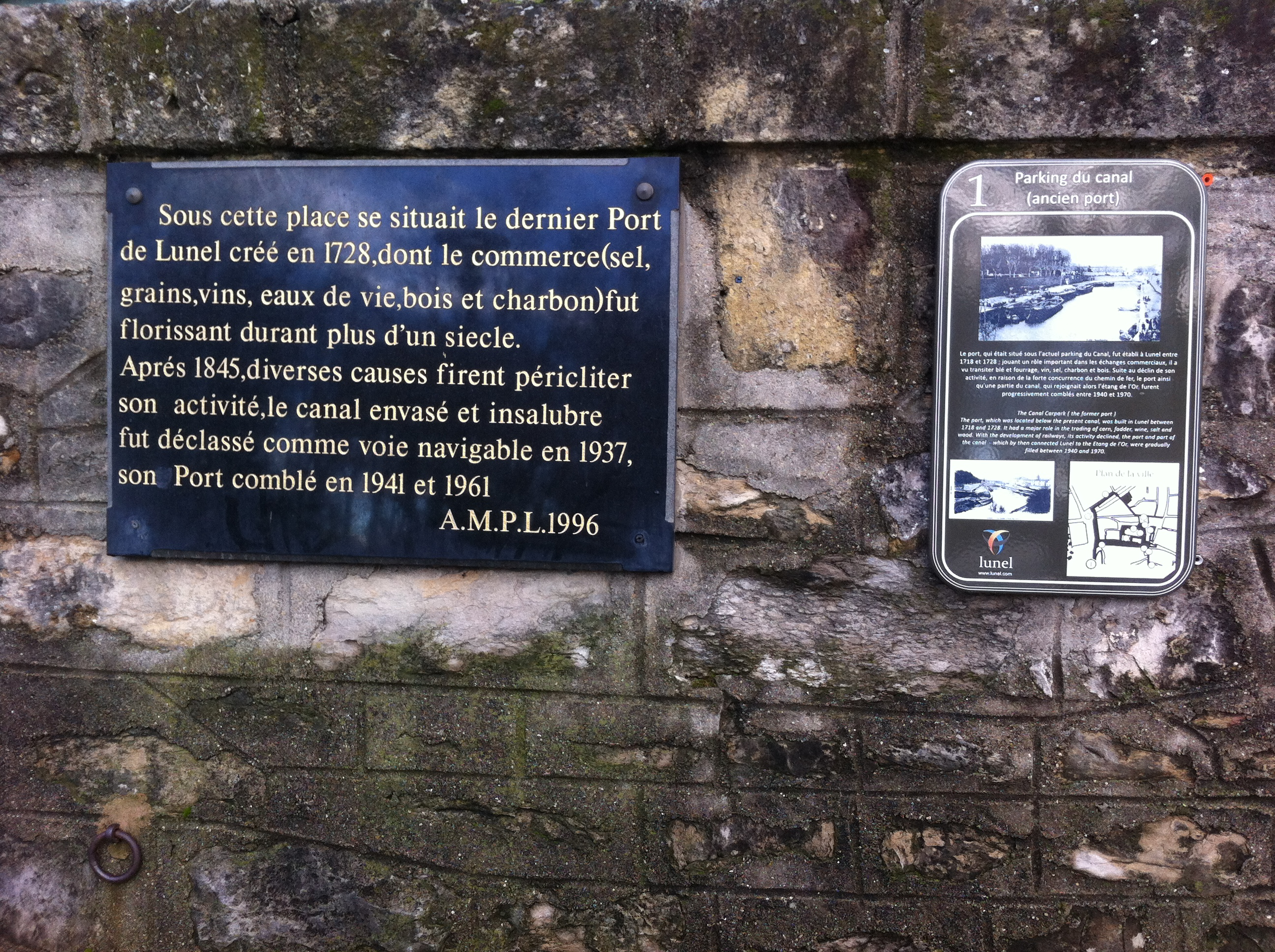 "Under this square was located the Port of Lunel built in 1728, which the trading activity ( salt, grains, wines, brandy wood and coal ) was florishing during more than a century. After 1845, different causes made its activity decline, the silted and unhealthy canal was then declassified as a waterway in 1937 and its port was filled in 1941 and 1961. A.M.P.L. 1996 " " The canal Carpark (the former port) The port, which was located below the present canal, was built in Lunel between 1718 ans 1728. It had a major role in the trading of corn, fodder, wine, salt and wood. With the development of railways, its activity declined, the port and part of the canal, which by the connected Lunel to the Etang de l'Or, were gradually filled between 1940 and 1970. "